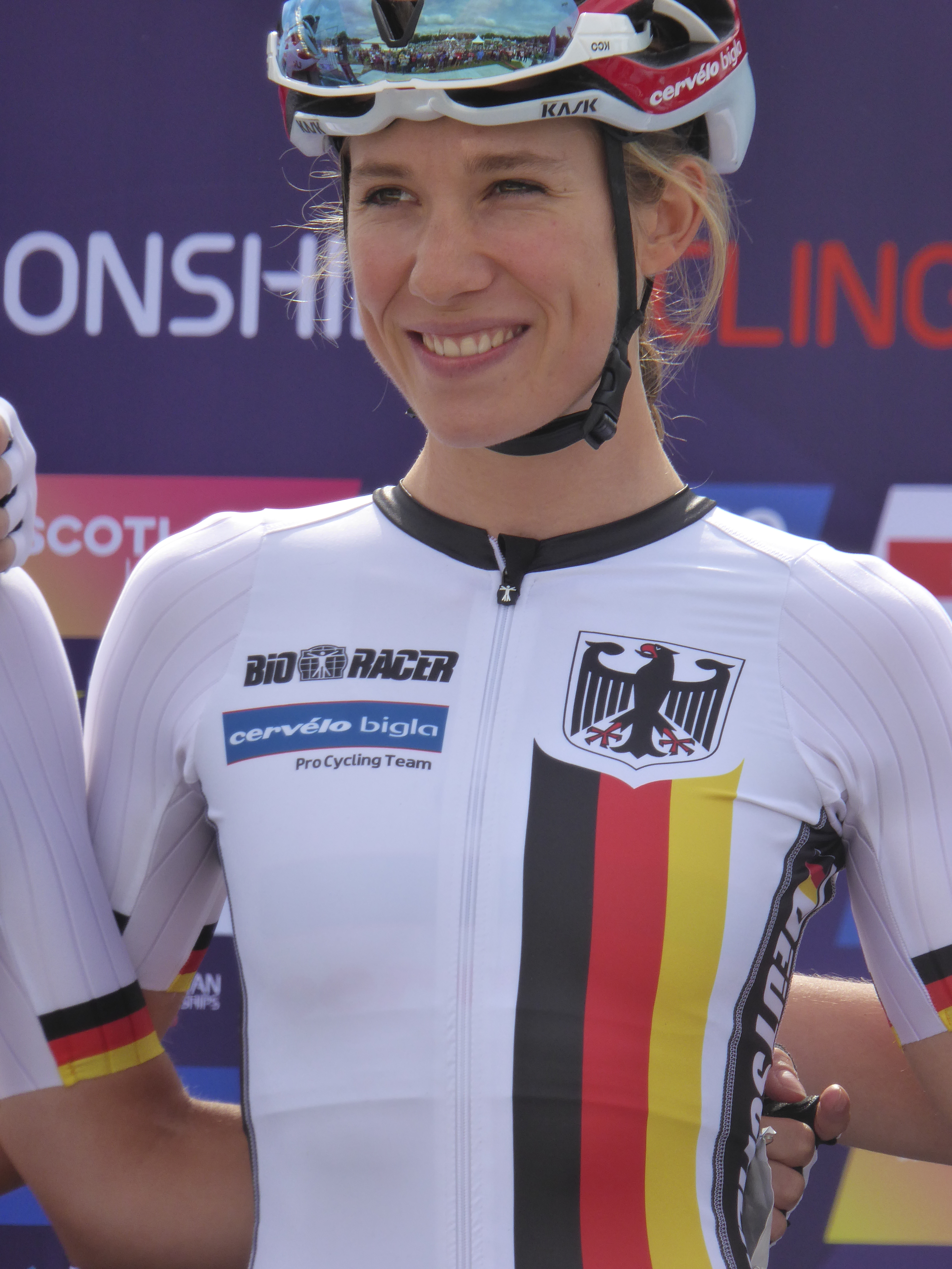 Clara Koppenburg (Germany), prior to the women's road race at the 2018 UEC European Road Cycling Championships in Glasgow.